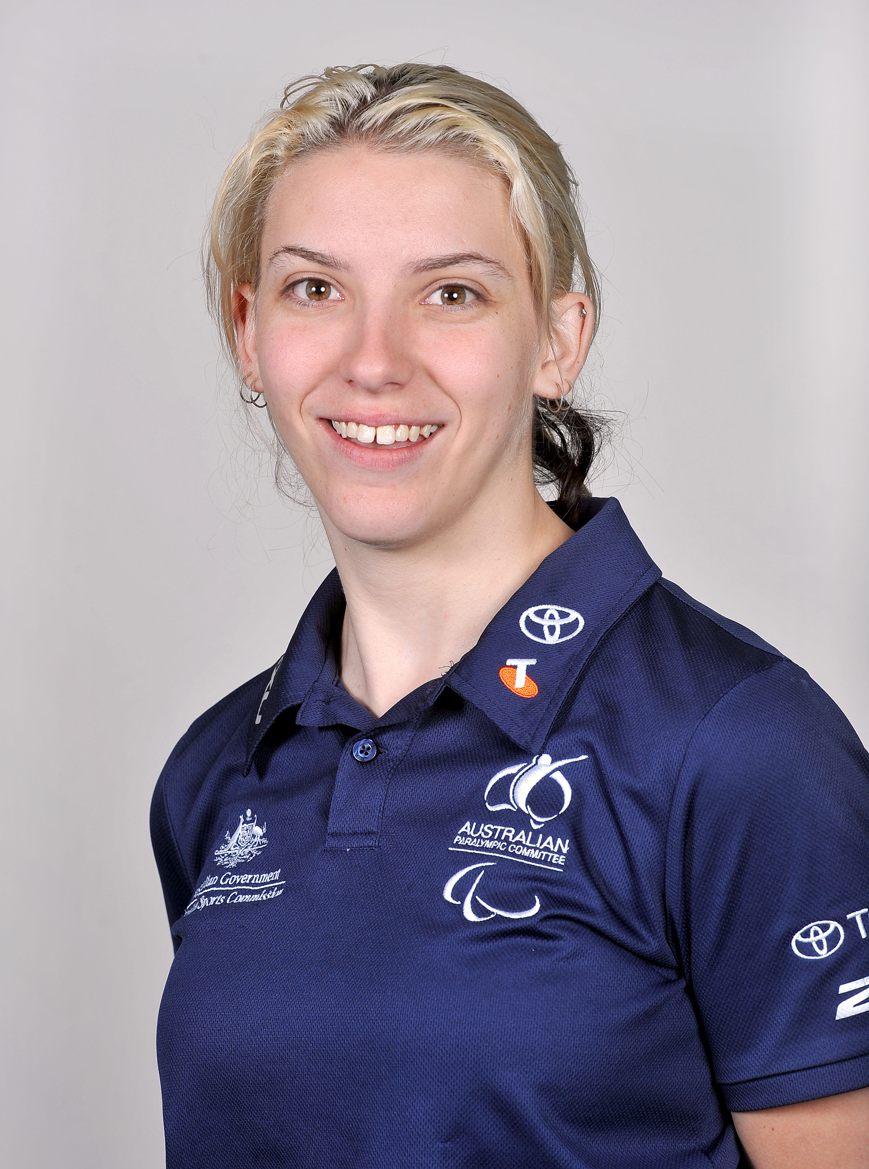 Portrait of Australian cyclist Jayme Paris, 2012 Australian Paralympic (shadow) Team athlete